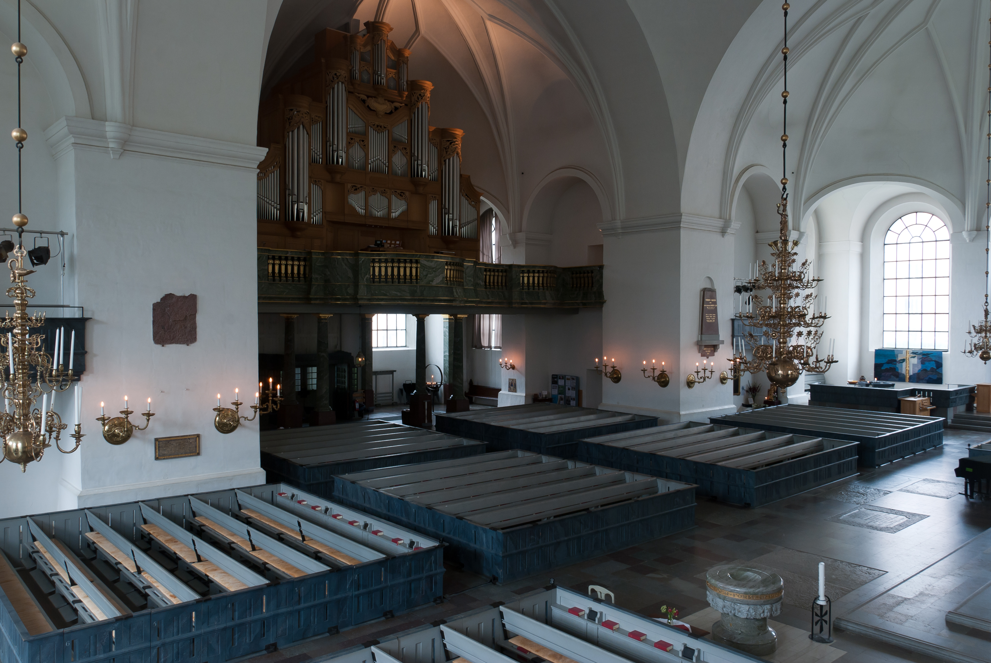 Katarina kyrka